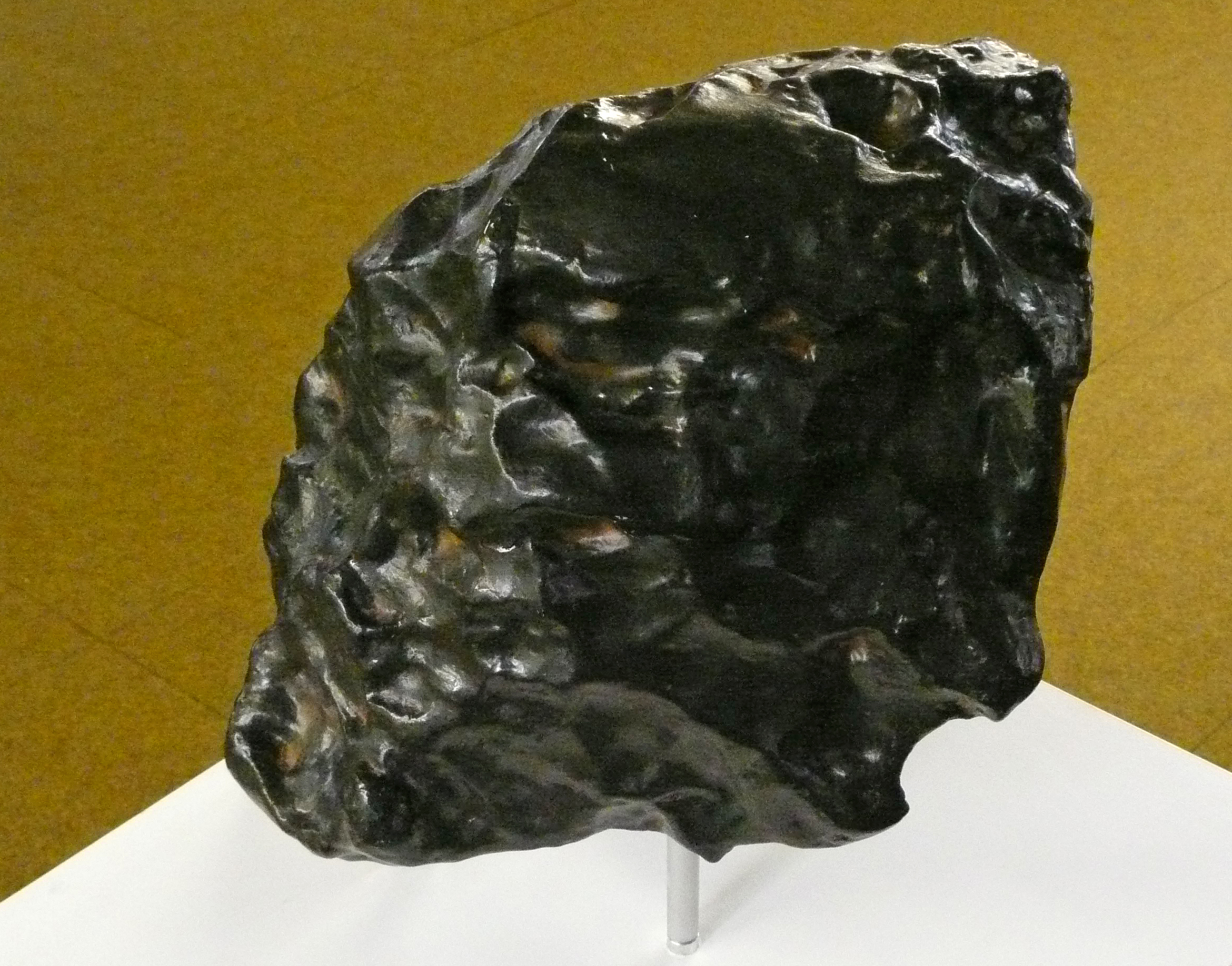 Copy of the original found Meteorite of Treysa in the Mineralogisches Museum in Marburg fallen on April 3, 1916 into a forest near Rommershausen near Treysa in Hesse, Germany. Iron meteorite of iron-nickel (Mean Oktaedrit, group III B-ANOM), Weight after finding 63.3 kg, depth of impression: 1.6 m, crater ca. 1.5 x 1 m.